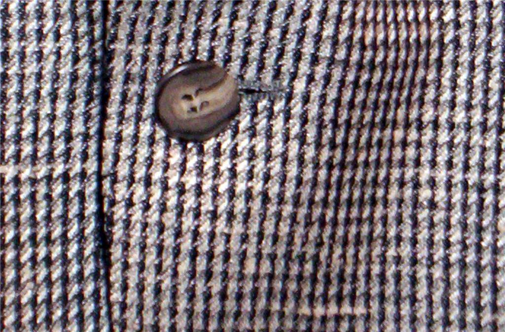 Lanvin men's blazer detail of houndstooth cloth